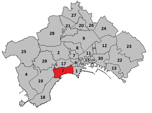 Chiaia in Naples